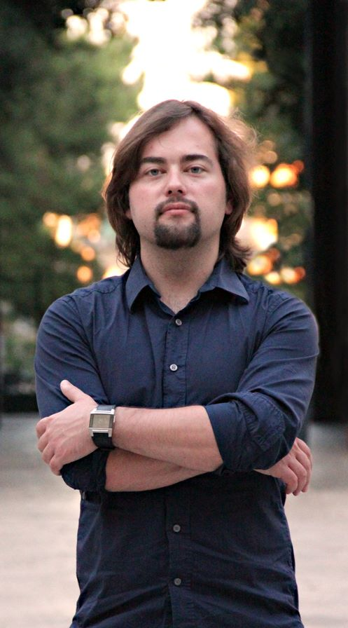 Czech movie director and producer